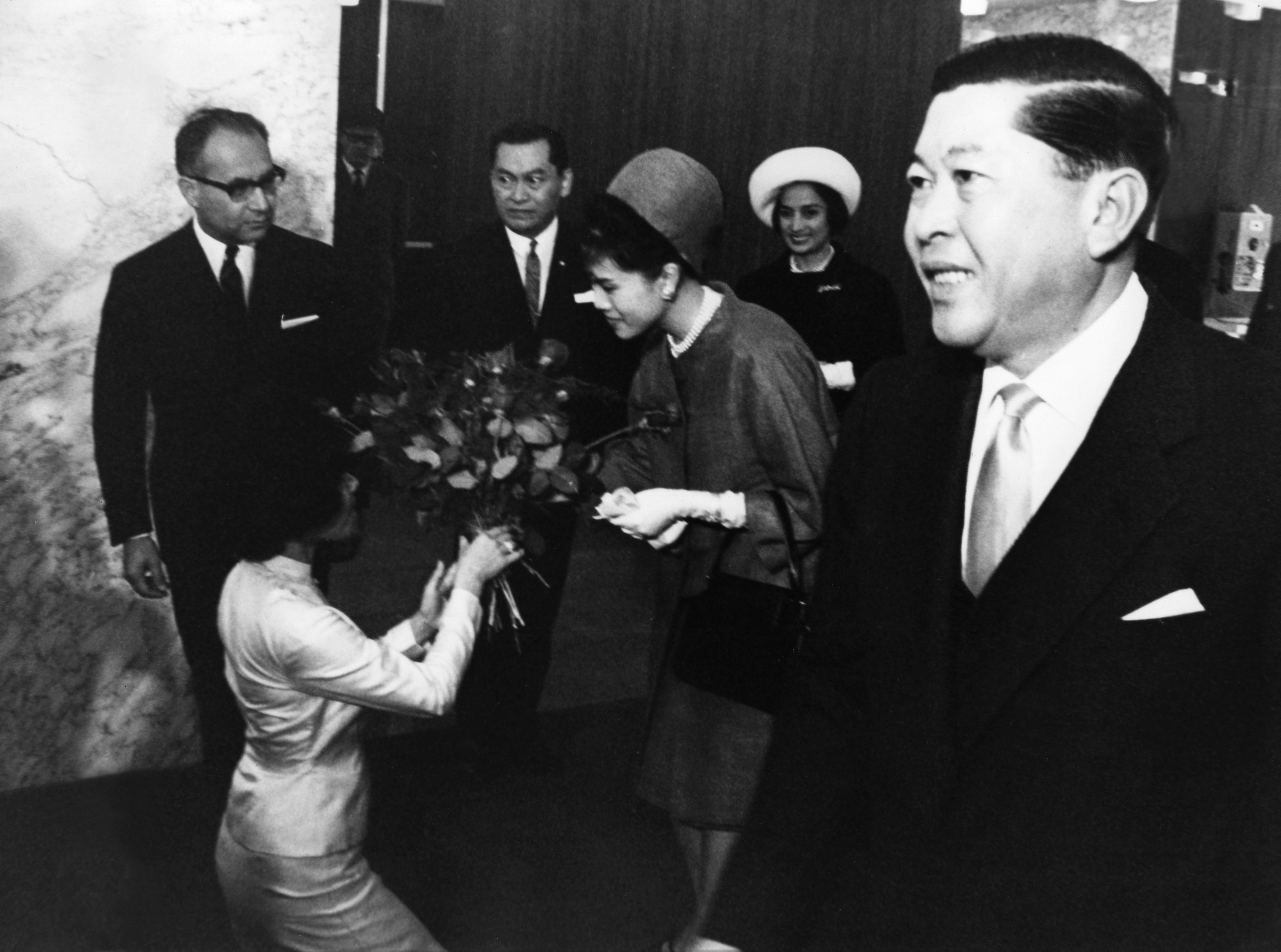 Queen Sirikit of Thailand is greeted at IAEA Headquarters during her and King Bhumibol Aduljadej's visit to Austria on 30 September 1964 by Miss Pensri Thavorn from Thailand, holder of an IAEA fellowship in radiation protection and health physics, at present working at the Agency’s laboratory in Seibersdorf near Vienna. From left to right: Mr Georges Klevanksi, Chief of Protocol, Miss Pensri Thavorn, Queen Sirikit and Mr. Thanat Khoman, Foreign Minister of Thailand.